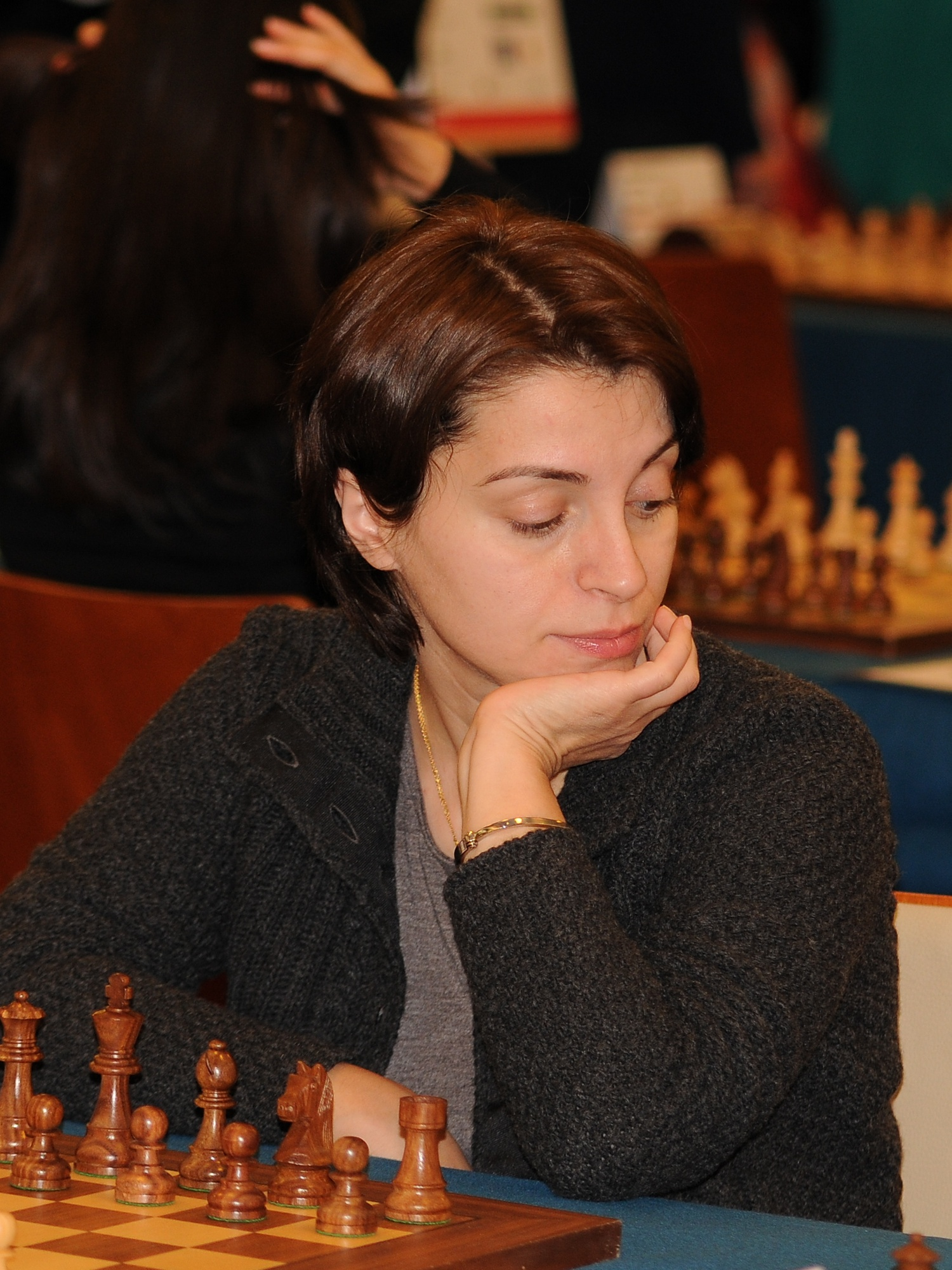 IM Nino Khurtsidze, European Chess Team Championship Warsaw 2013